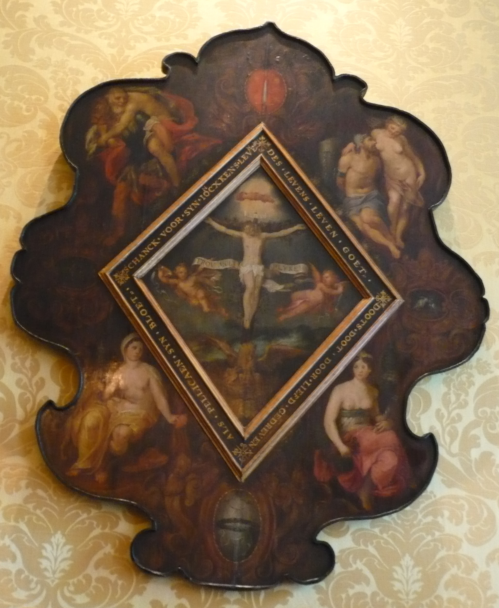 Historical "Blazoen" of a Chamber of Rhetoric, painted for the Haarlem council on the occasion of a lottery to build an old men's almshouse (currently the location of the Frans Hals Museum) in 1604-1606. Currently located in the clubhouse of the Haarlem society "Trou Moet Blycken". This blazoen representing the Haarlem chamber "De Pelikaan" with motto "Trou Moet Blycken" was designed by Hendrick Goltzius and painted by Frans Pietersz de Grebber.